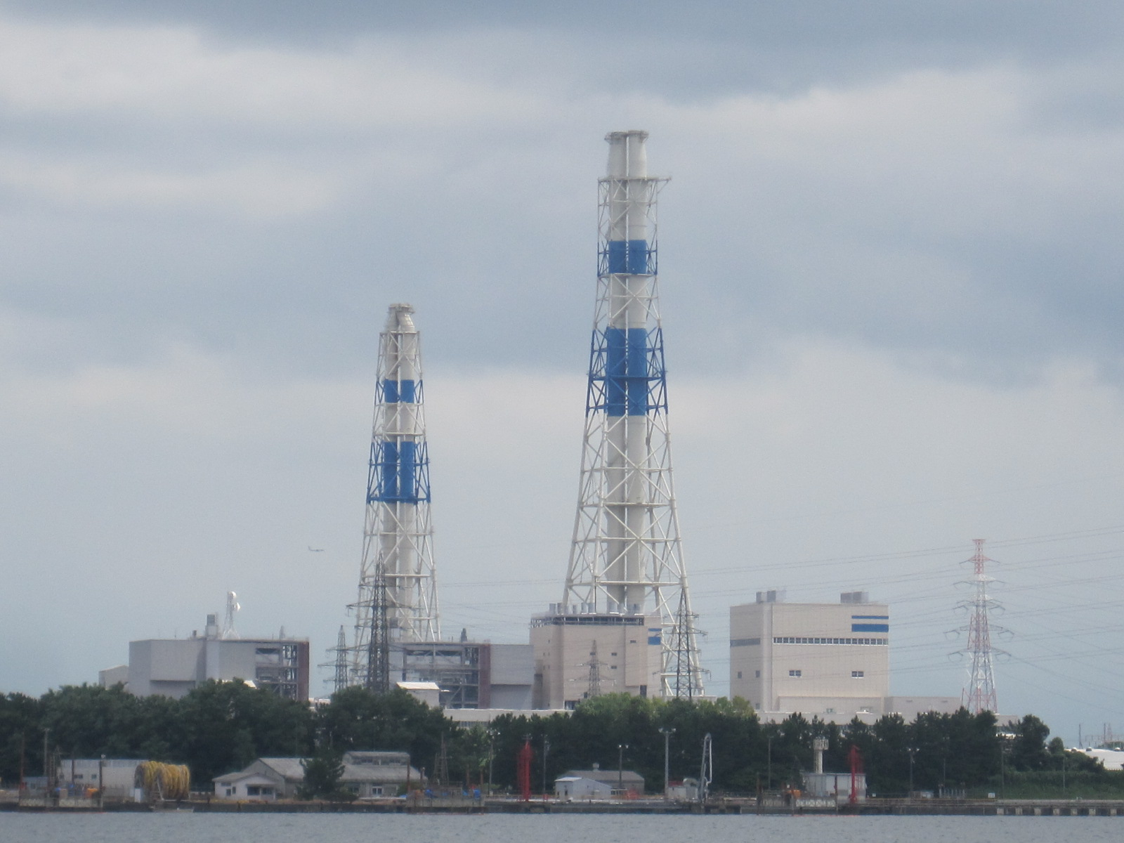 Toyama Shinko Thermal Power Plant (Imizu city, Toyama prefecture)